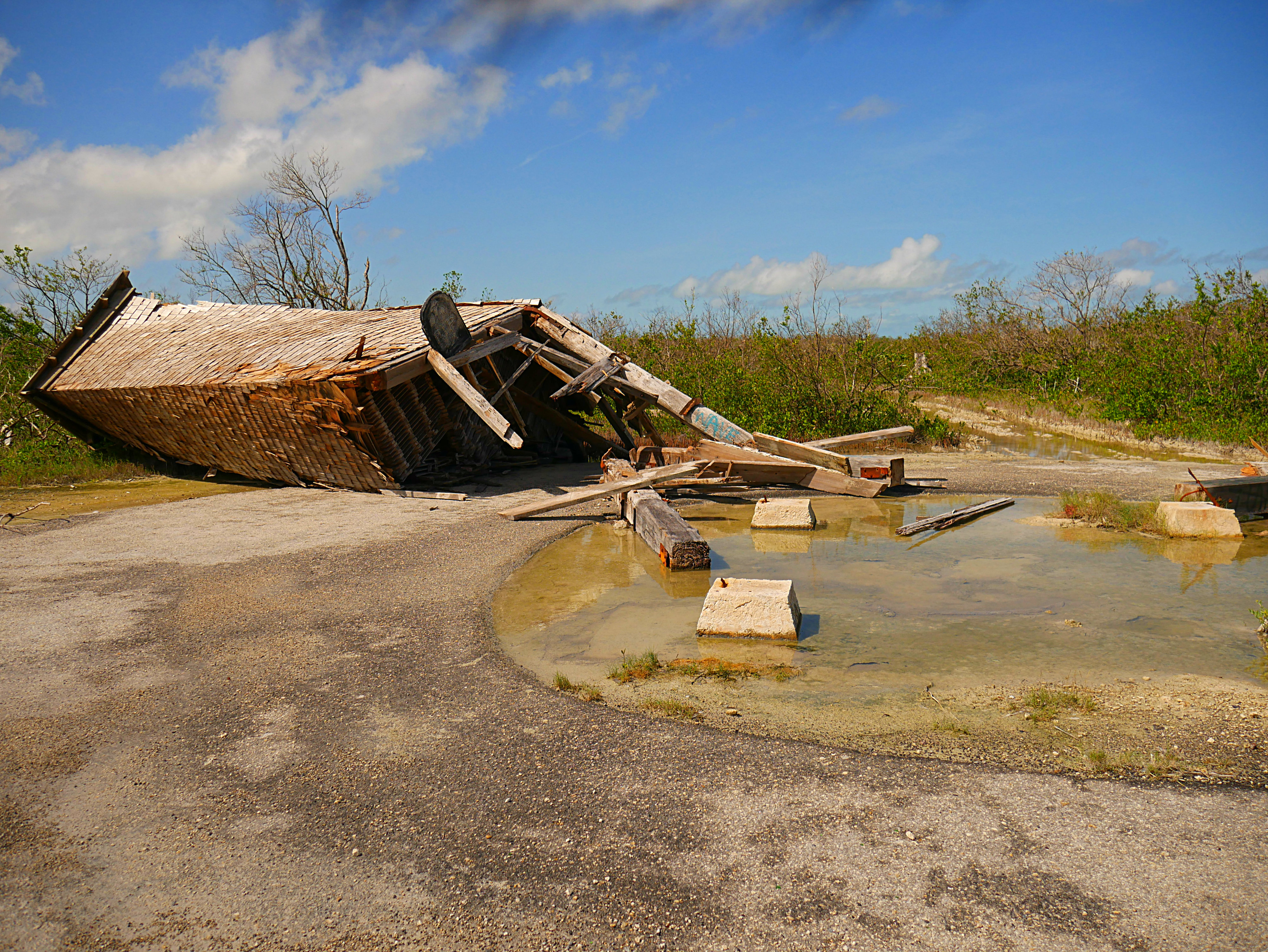 The historic bat tower of sugar Loaf key was destroyed in hurricane Irma. this photo was taken on October 19th 2017 while the keys are still recovering from the devastation.